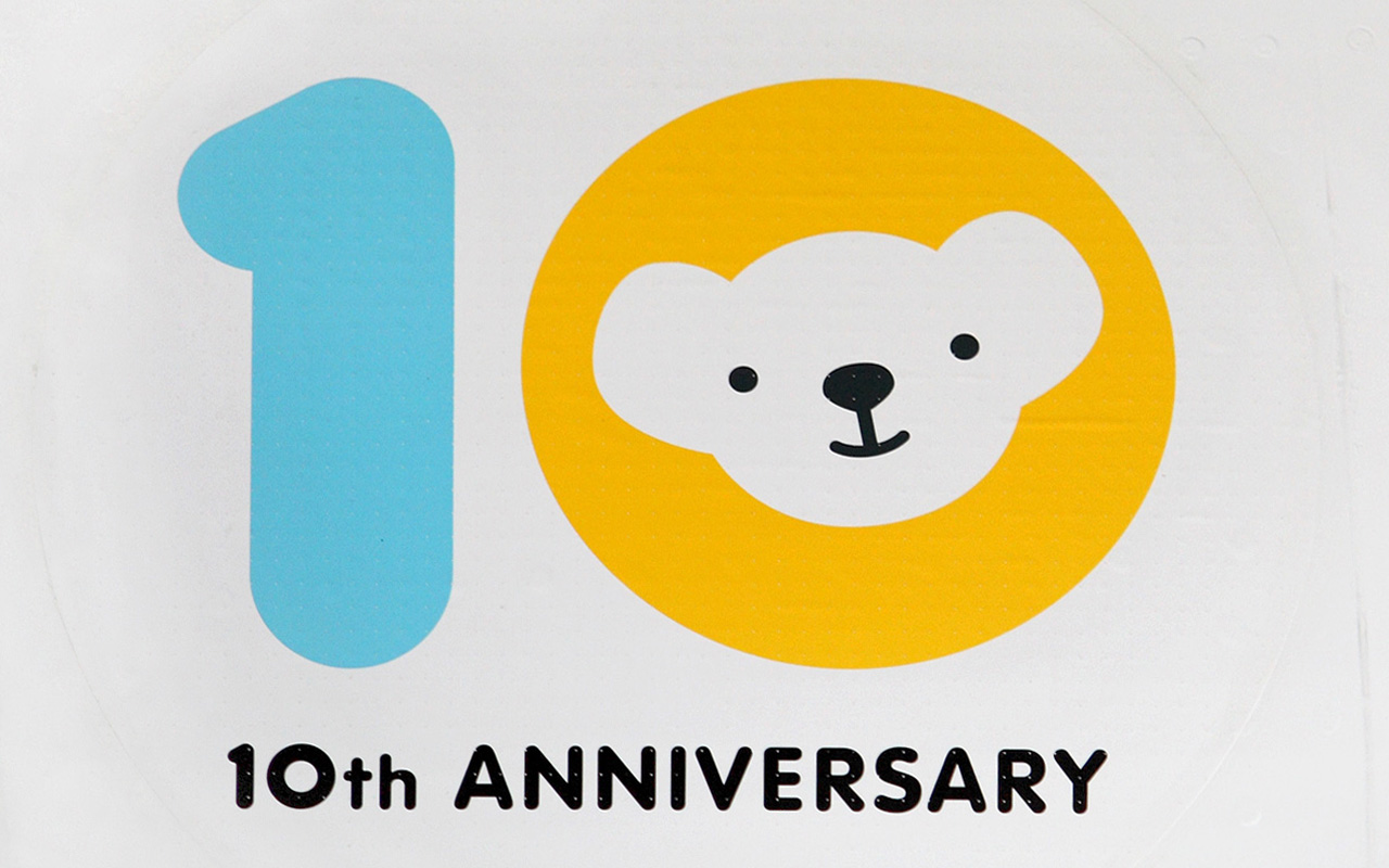 10th anniversary logo with BEAR DO, of AIR DO B737-400.